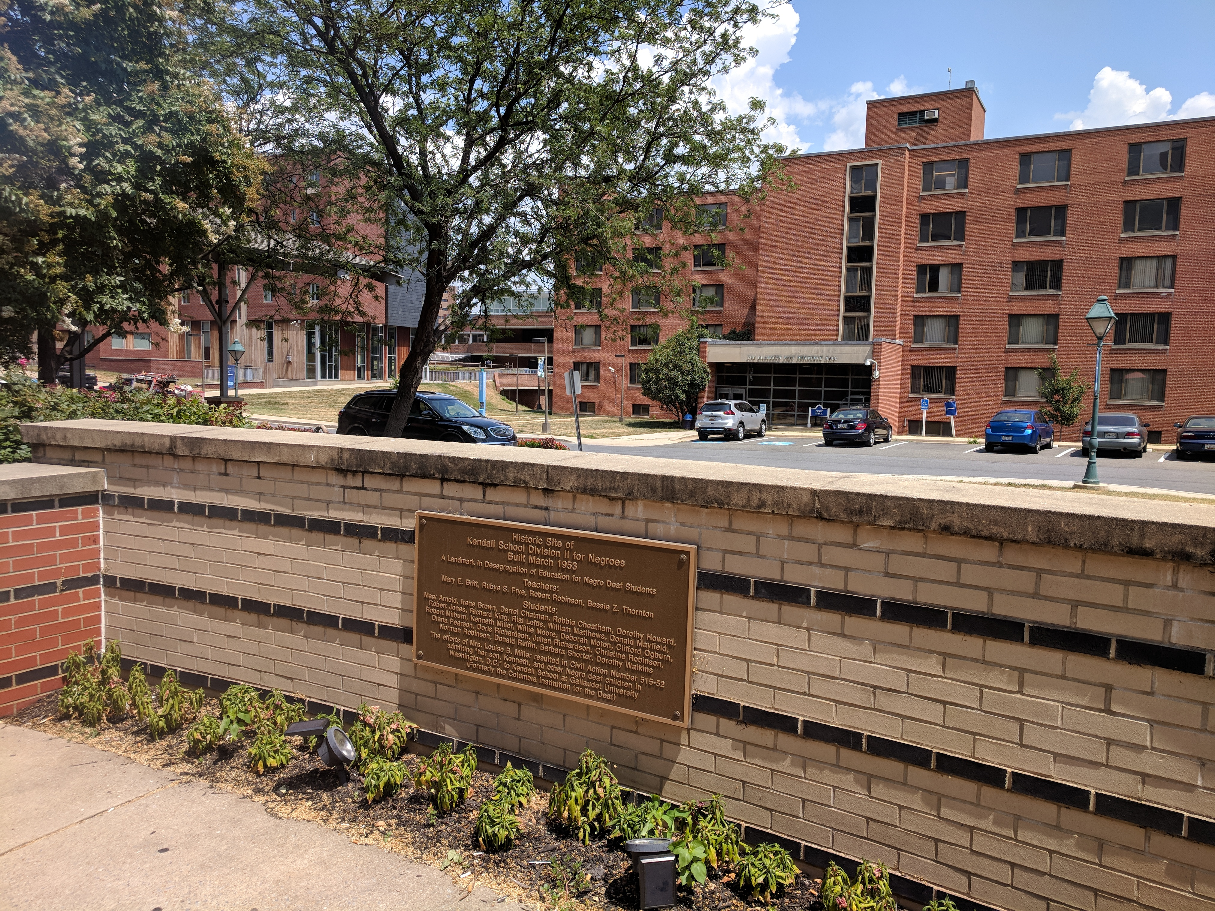 A historic place marker indicating the former site of the Kendall School Division II for Negroes at what is now the Kellogg Conference Hotel on the campus of Gallaudet University. The plaque lists the names of the four black teachers hired, 23 students, and information on the court case which required the admission of black students to the institution (though still physically segregated on campus). The photo is taken facing (east by north)east. On the left is the Living and Learning Residence Hall. On the Right is the Peet Hall Dormitory.